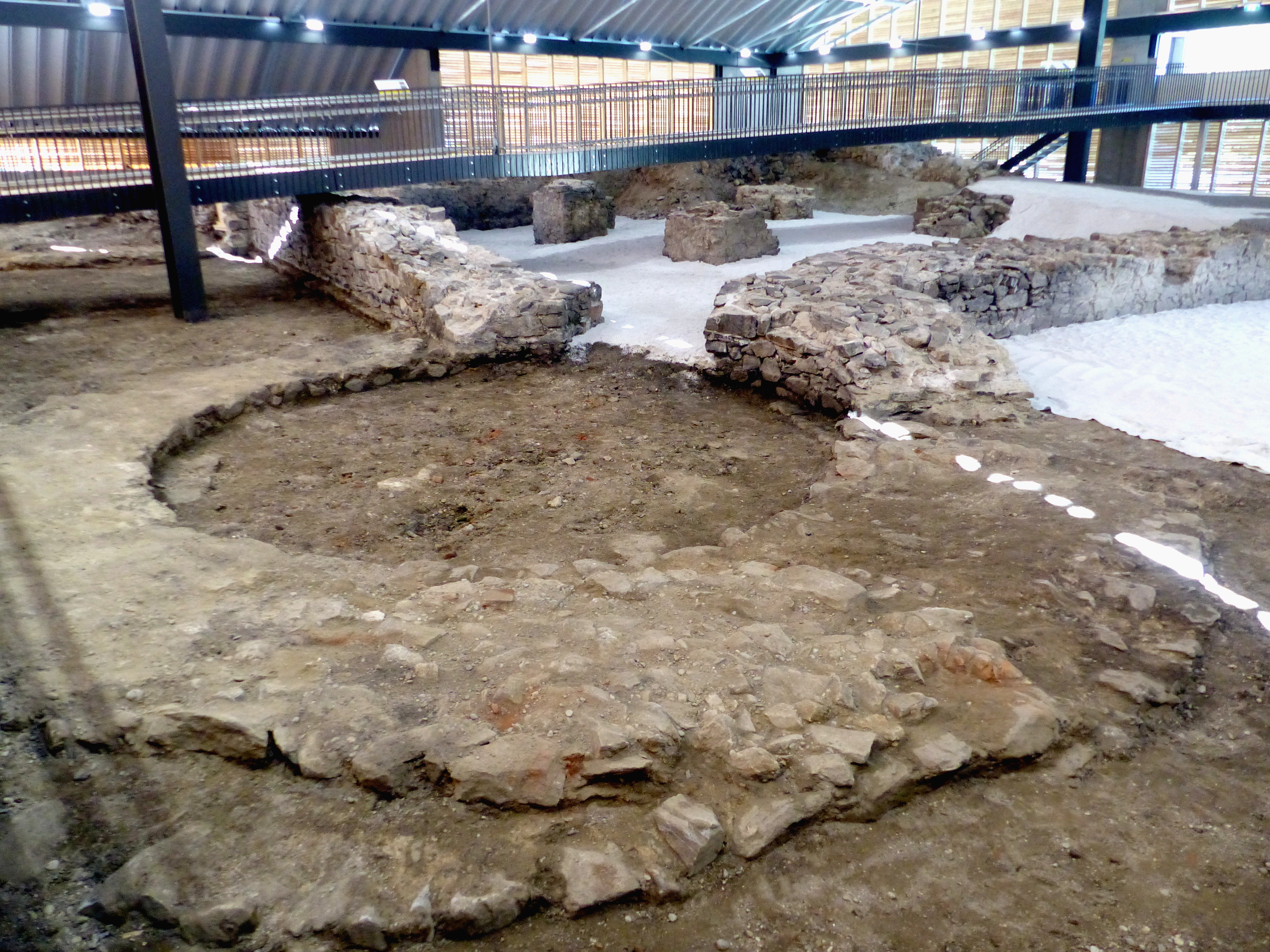 Ancient Roman fortress ( burgus ) in Oberranna ( Upper Austria ) - Southern tower ( 4th century AD )